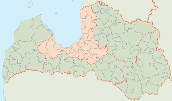 Location map of Riga Region, Latvia.